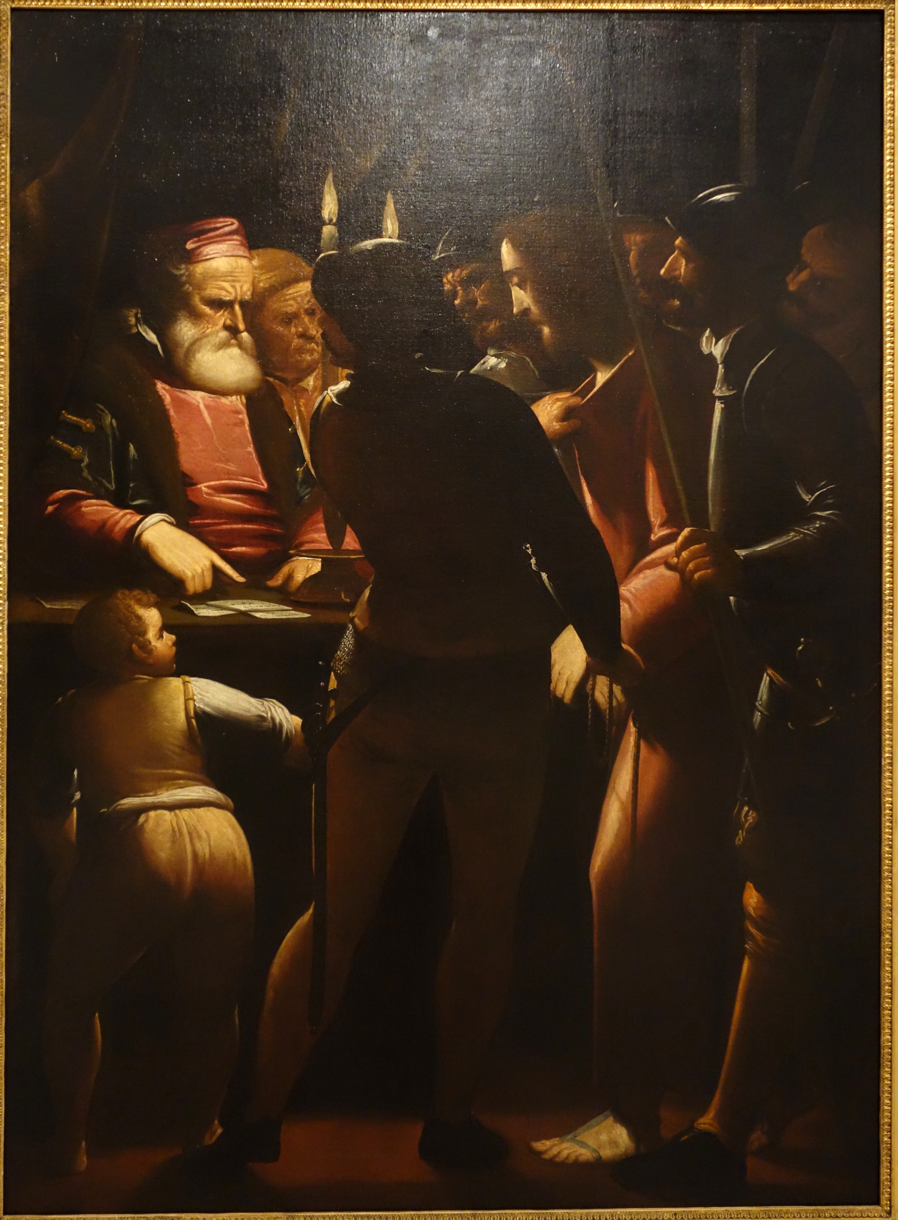 Christ before Caiaphas